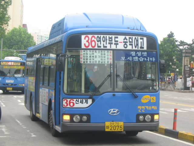 Incheon Buses 36